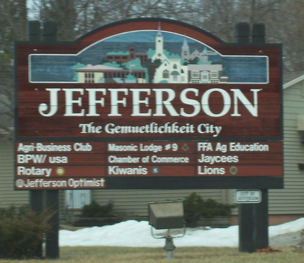 The welcome sign for Jefferson, Wisconsin, USA in Jefferson County, Wisconsin on Wisconsin Highway 26.